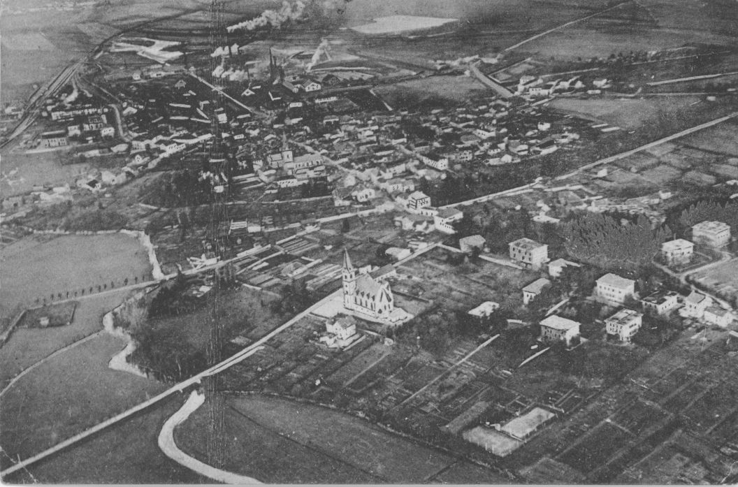 A view of Dieuze in the early 20th century (Dieuze was part of the territory "Alsace-Lorraine" then annexed to Germany).